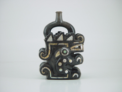 Mochica Crawling Feline